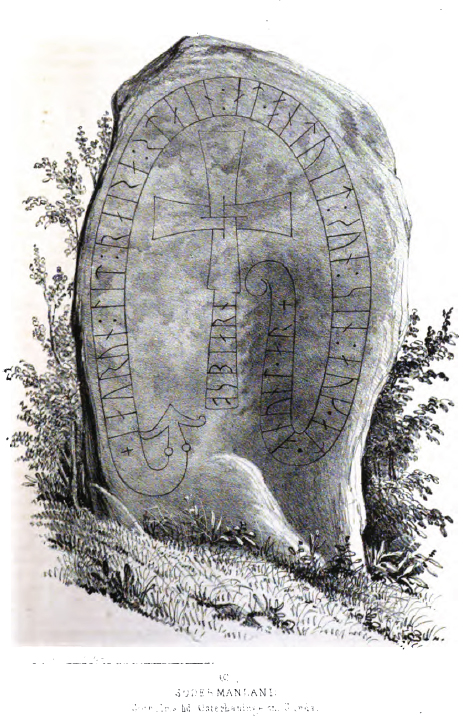 The runestone Sö 266. The inscription reads + iaurun : lit : raisa : stain : at * ontuit : sun : sin : auk * at * onunt*ar + osbiarn. In English "Jórunnr had the stone raised in memory of Andvéttr, his son, and in memory of Ônundr's. Ásbjôrn."